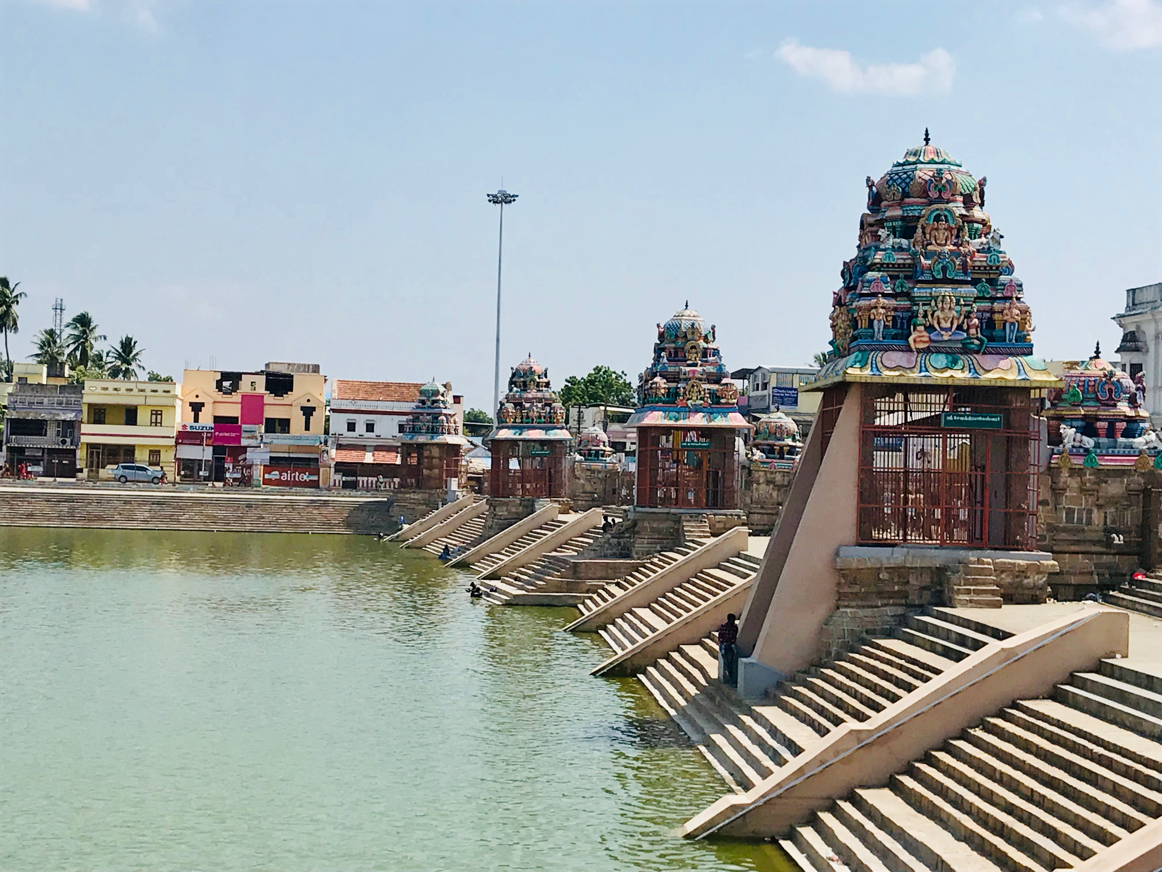 Kumbhakonam is a historic and holy South Indian city and region in Tamil Nadu. Along with its many Hindu temples, it has the Mahamaham tank where the equivalent of the northern Kumbh mela has been celebrated once every 12 years. Millions gather to take a dip in the Hindu calendar month of Magha, particularly in the 12th year (mahamaham festival). The kund – holy tank – is believed to be the gathering place for nine sacred river goddesses of India, along with Shiva. These rivers are: Ganga, Yamuna, Sarasvati, Narmada, Godavari, Krishna, Tungabhadra, Kaveri and Sarayu. Shiva is remembered and revered as the Creator (not just destroyer) , based on the legends in Periya Purana. The tank is large and features ghat-like steps on all sides. Small Shiva temples surround the tank. The main temple gopura near the tank features an inscription, which summarizes the legend associated with the Kumbh mela at this tank. For more details: Diana Eck, India: Sacred Geography, pages 156–157